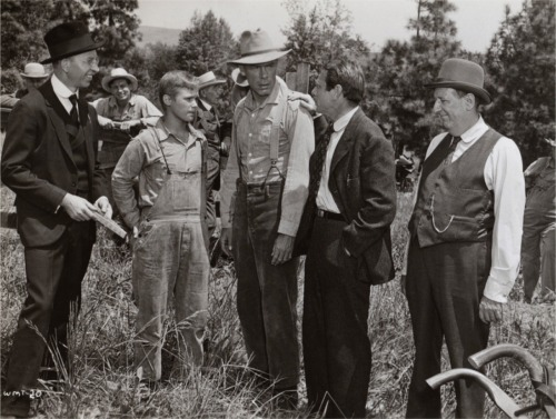 The Missouri Traveler - A Publicity photograph of the cast of the film.